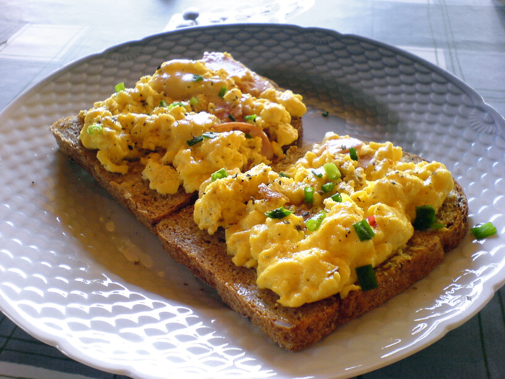 Taken myself with SEk750i. Scrambled egg with some leek, cheese and ham.